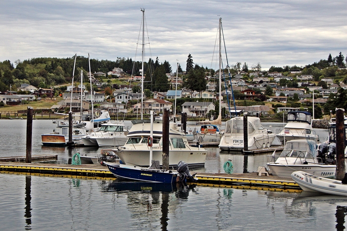 Driftwood Key Marina in Hansville, Wash., USA